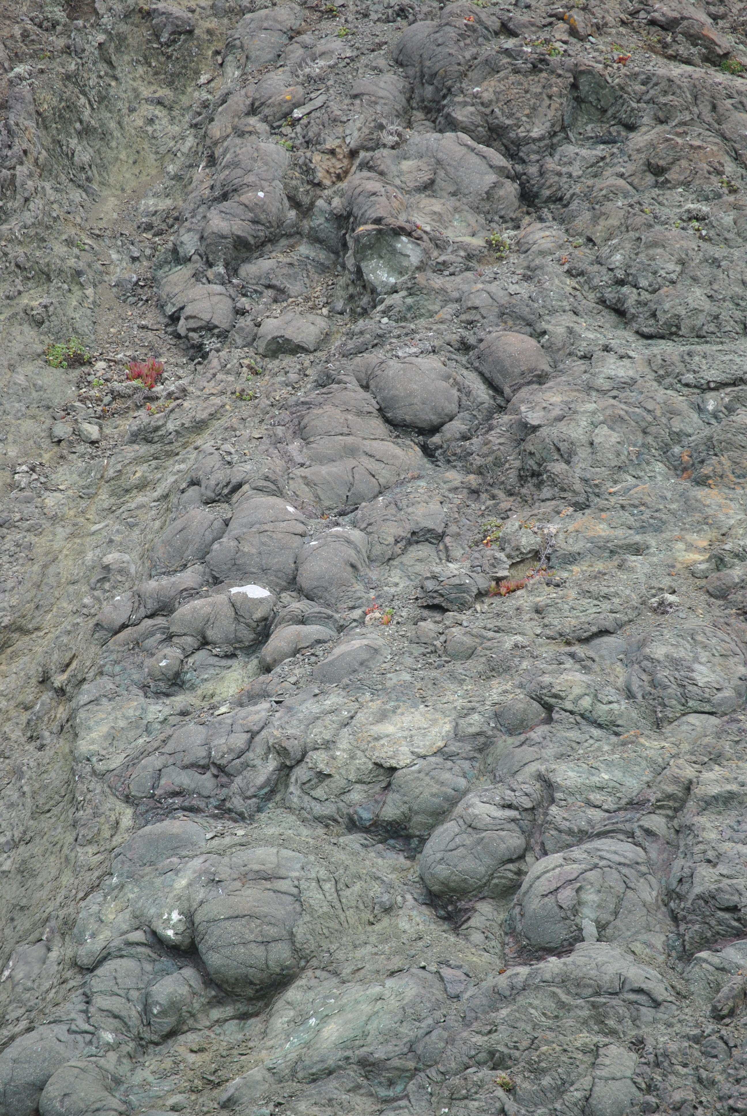 Well-developed and preserved pillow lava in Marin Headlands Basalt. Near the tunnel entrance to the Point Bonita Lighthouse, San Francisco, California. The size of pillows ranging from few to 60 centimeters.